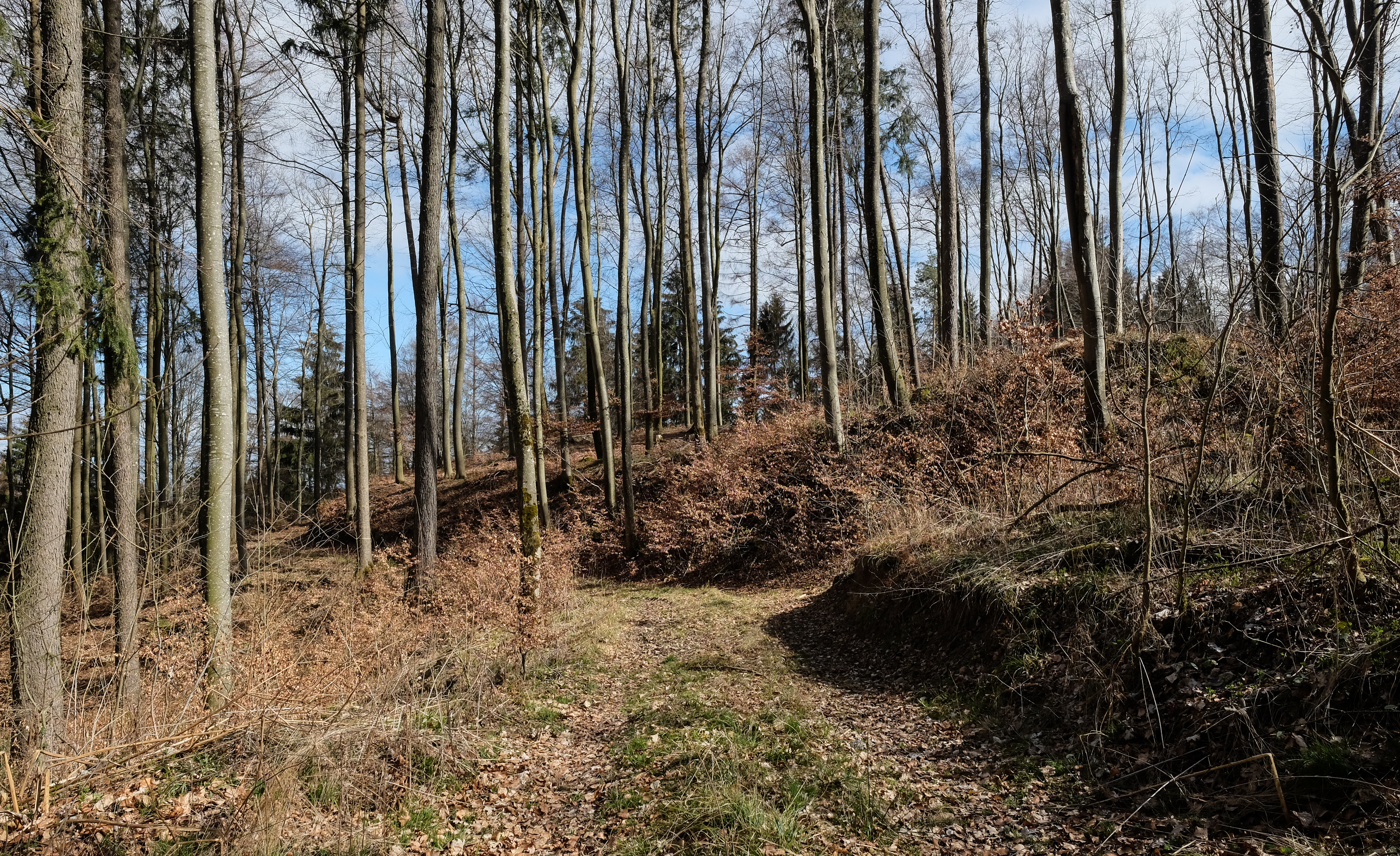 Demolished castle Egg, Ebenweiler, district Ravensburg, Baden-Württemberg, Germany